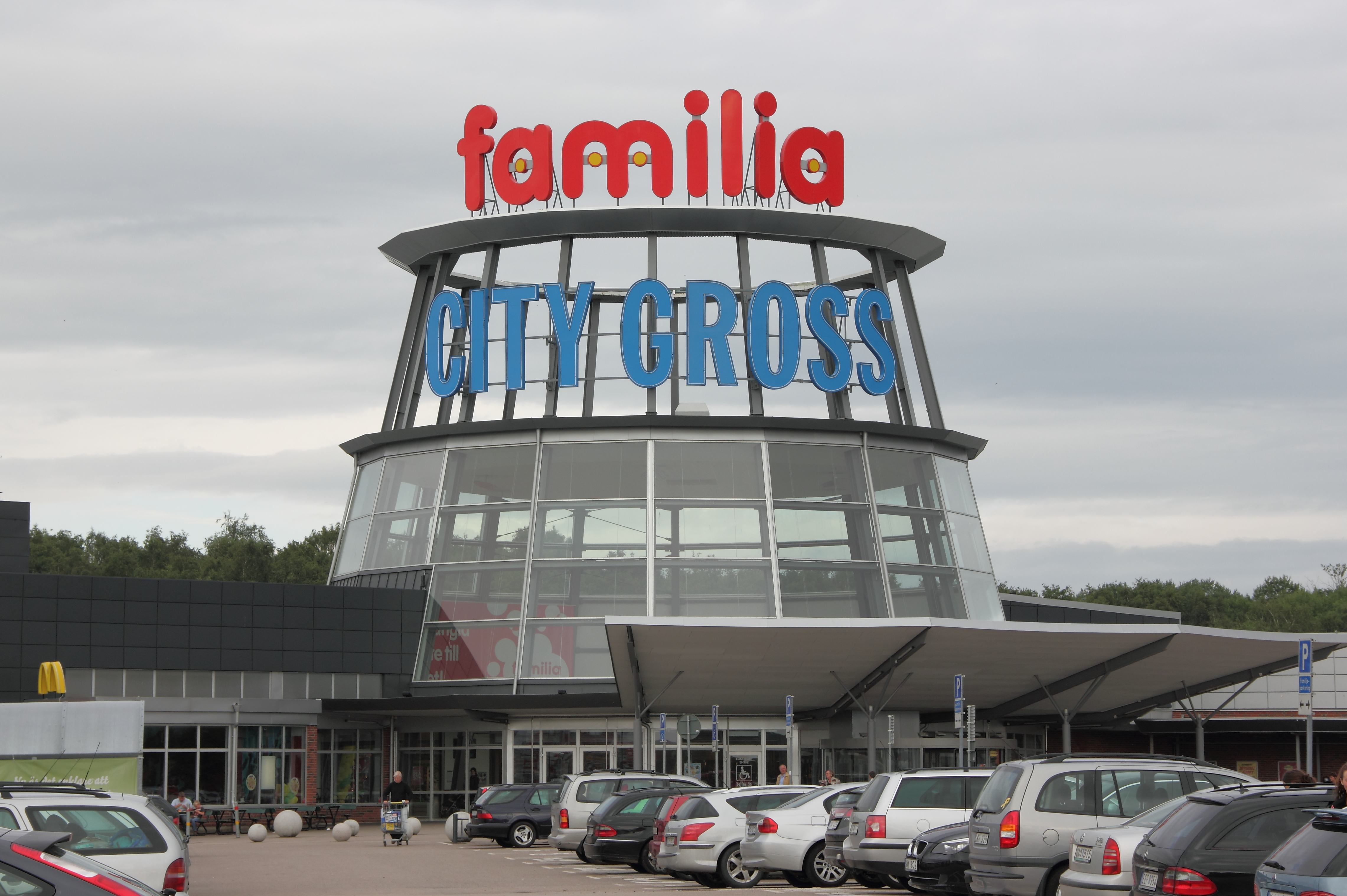 The entrance to Familia/City Gross in Hyllinge, Sweden